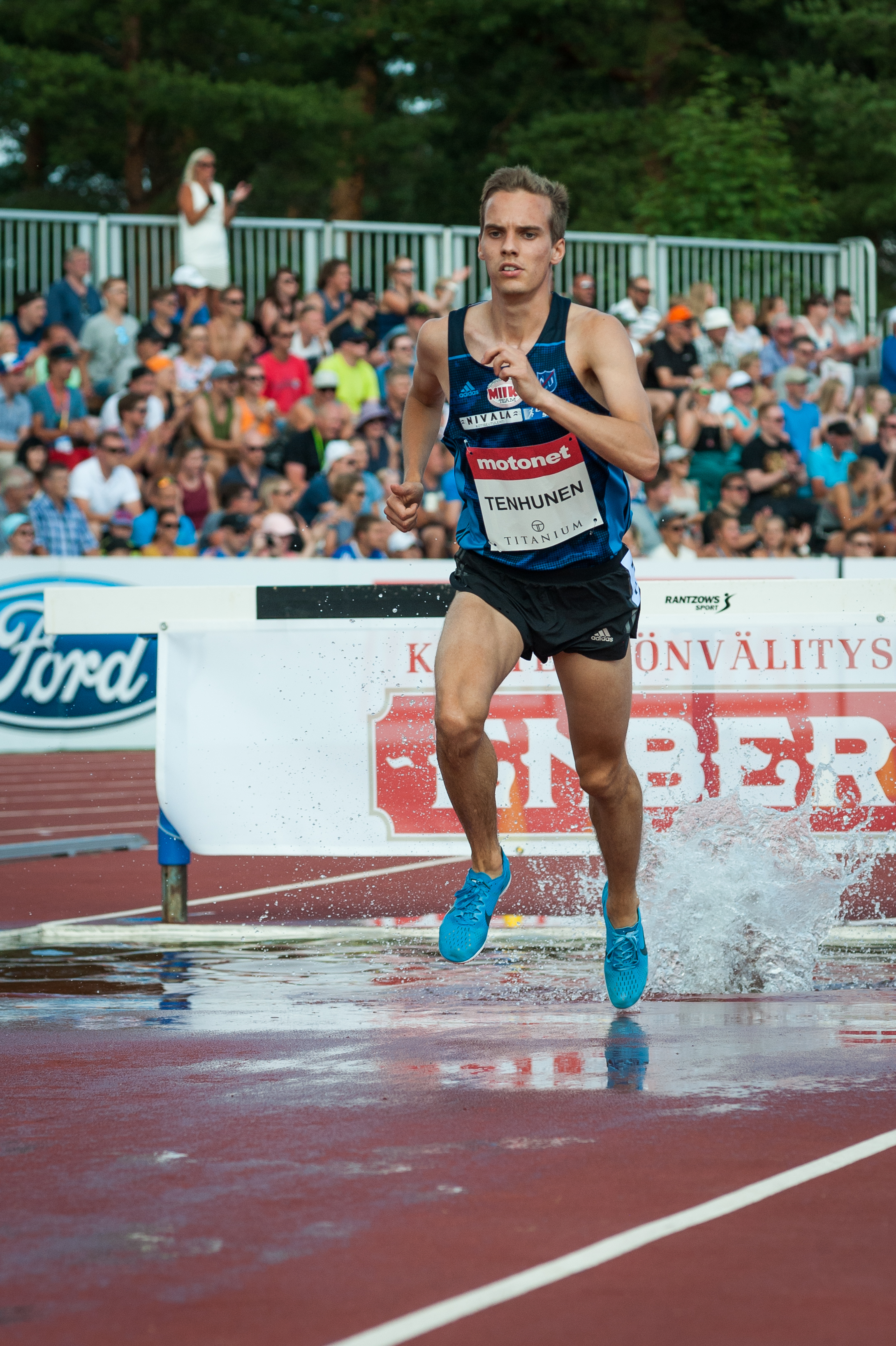 Men's 3000 m steeplechase competition at the 2018 Kalevan Kisat, the Finnish championships in athletics, in Jyväskylä, Finland.